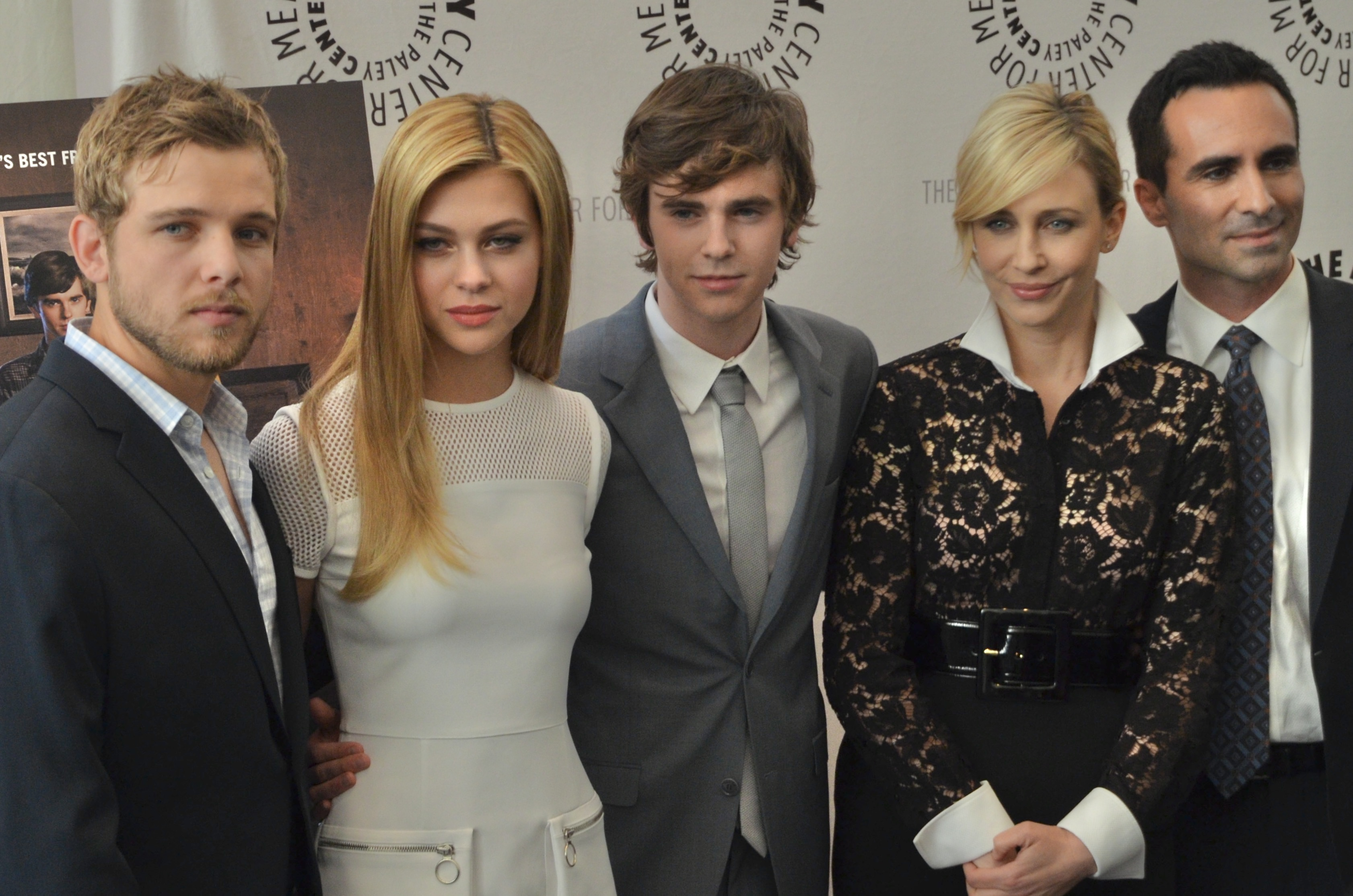 Max Thieriot, Nicola Peltz, Freddie Highmore, Vera Farmiga and Nestor Carbonell at The Paley Center for Media on May 10, 2013.